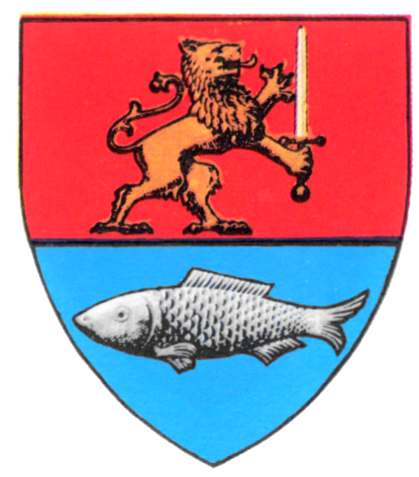 Interwar coat of arms of Dolj County, Kingdom of Romania.